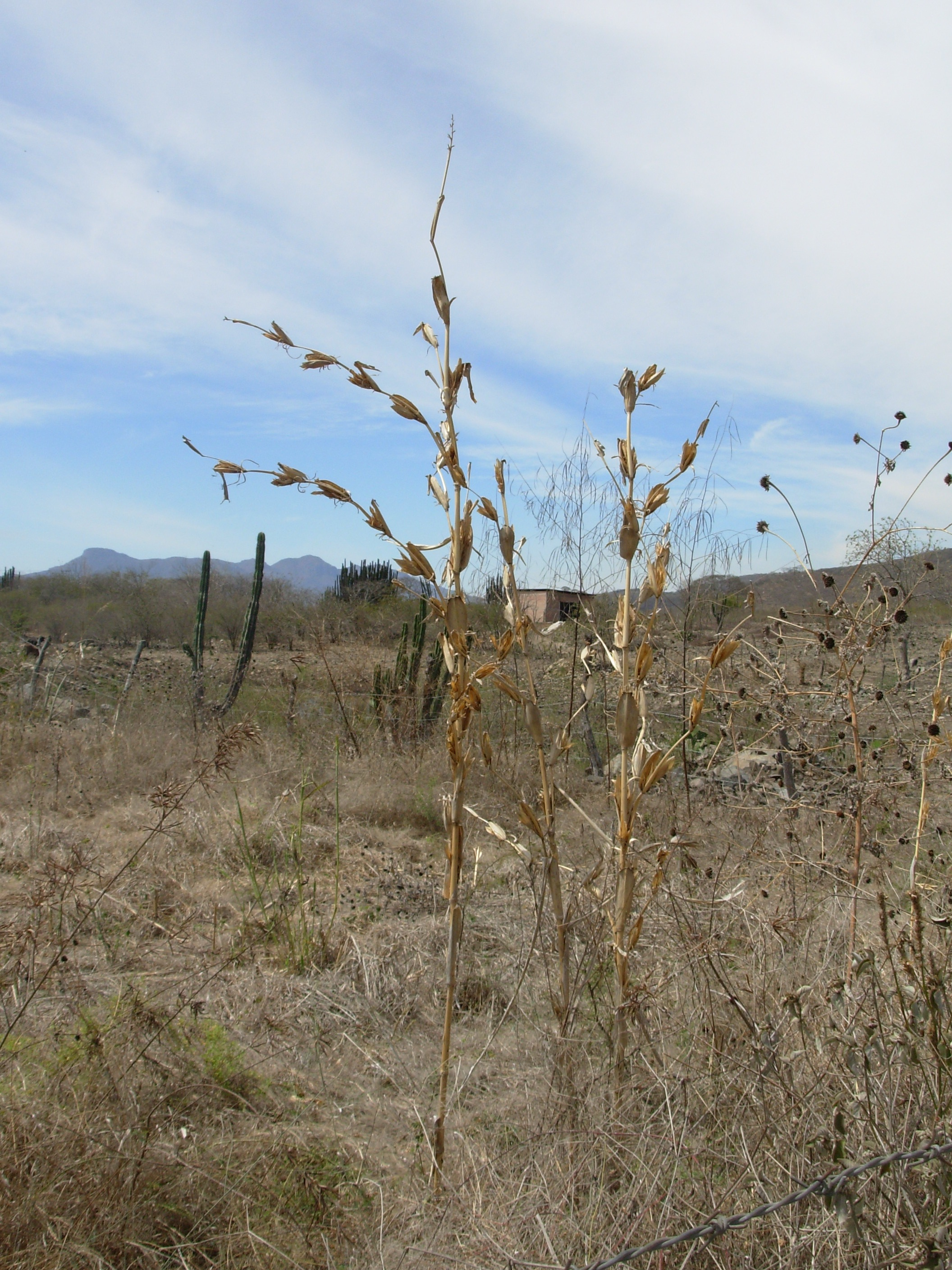 Teosinte (Zea mays ssp. parviglumis) growing wild in Jalisco state, Mexico